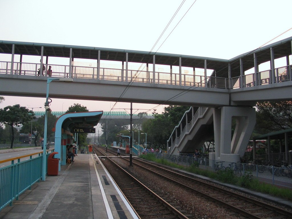 輕鐵 泥圍站 Nai Wai Stop, Light Rail